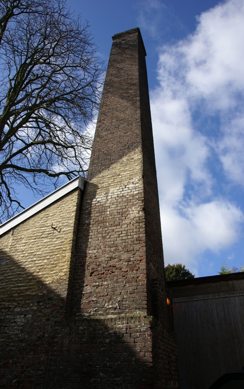 Chimney of former pasta factory of Baudain, Maastricht, The Netherlands.